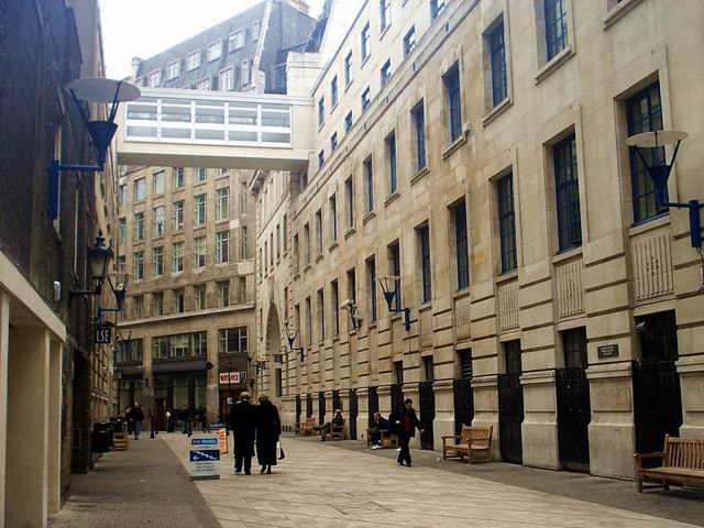 Houghton Street, Center of LSE Campus